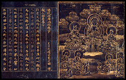 Complete Buddhist scriptures on deep blue paper with gilt letters (紺紙金字一切経, konshikonji issaikyō) or Chūson-ji Sutras (中尊寺経, Chūson-ji kyō)